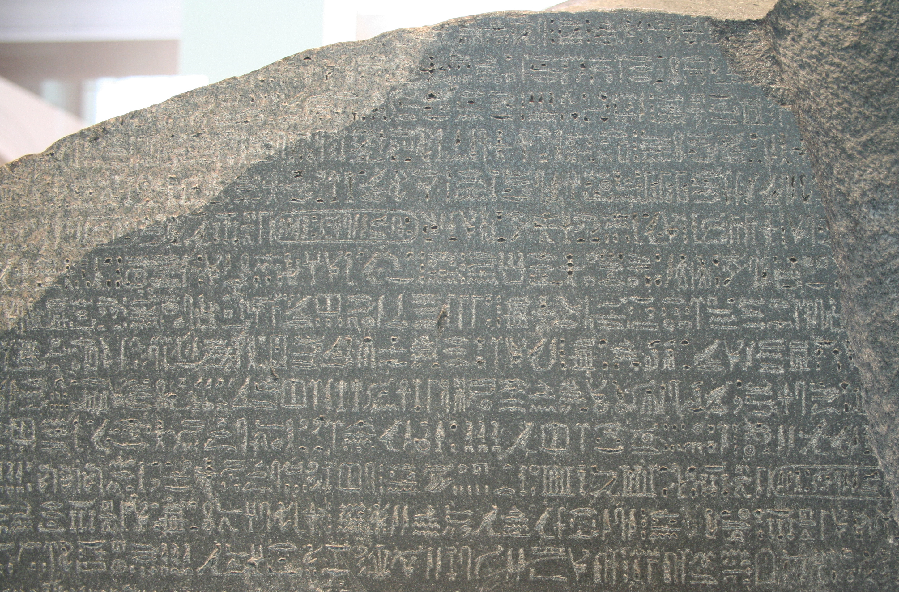 British Museum, London